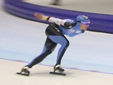 Claudia Pechstein (GER) at a World Cup in Thialf (Heerenveen, The Netherlands)